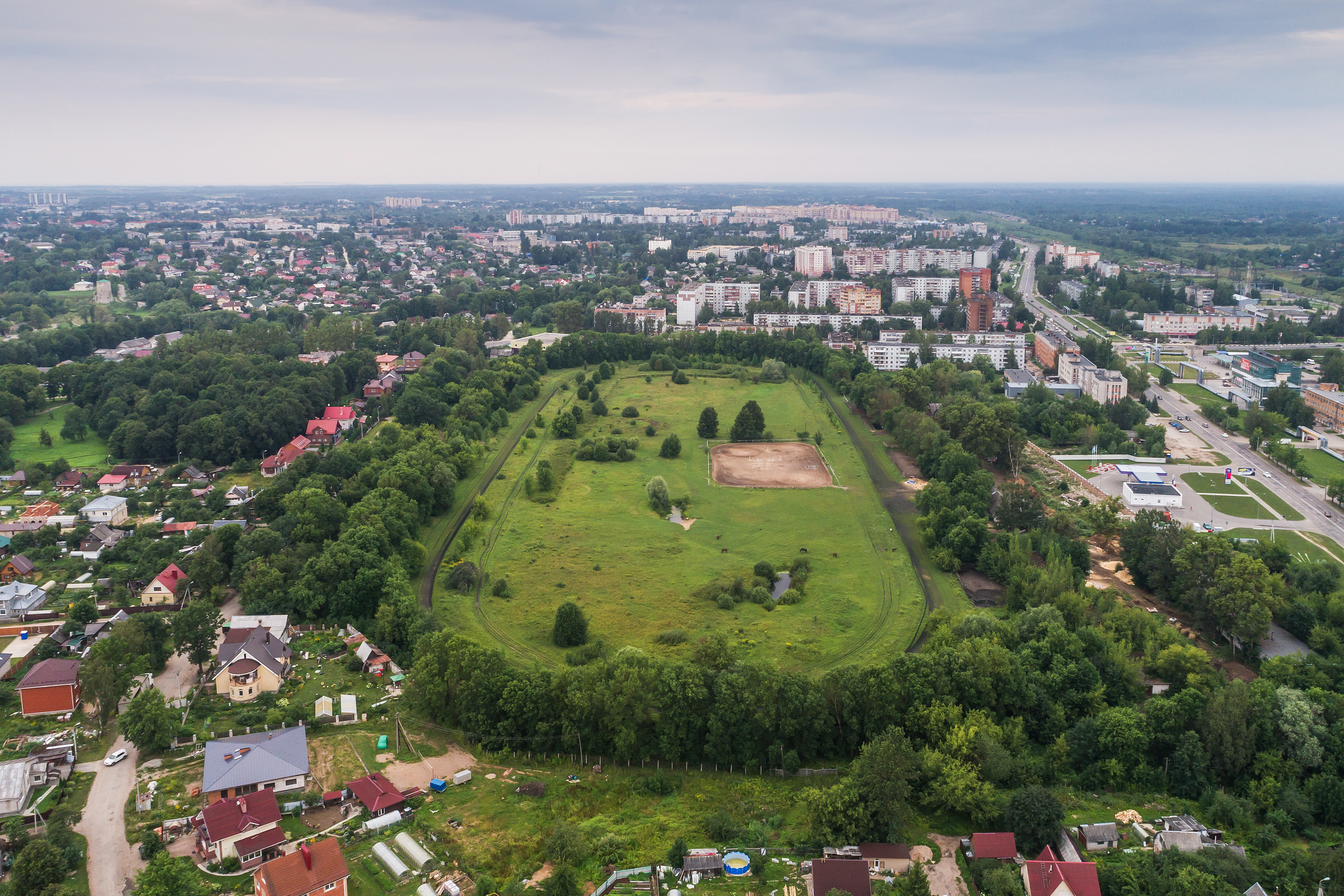 Aerial photo of the Hippodrome in Pskov, Russia